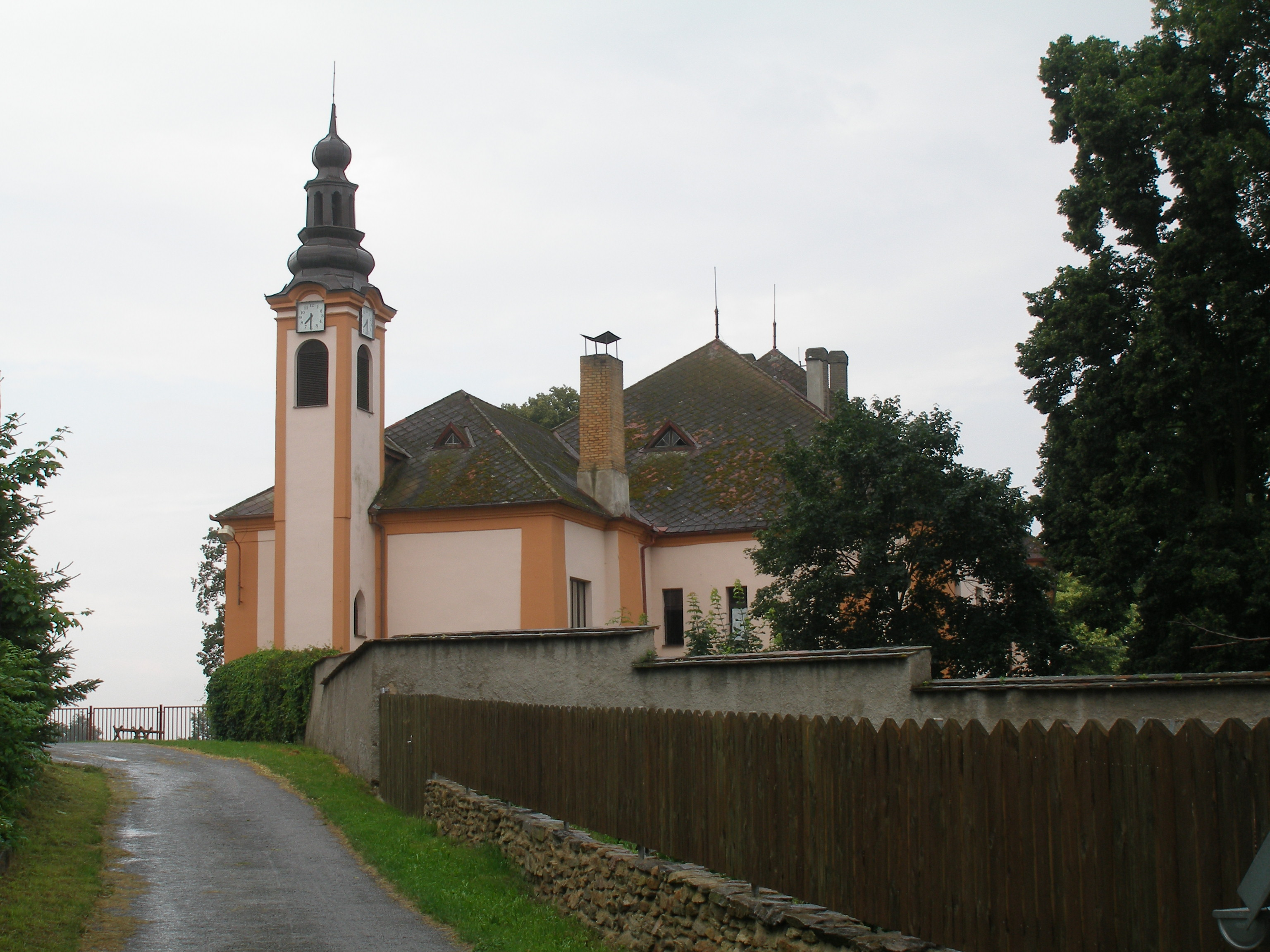 Myslkovice (Tábor District, Czech Republic) - the castle